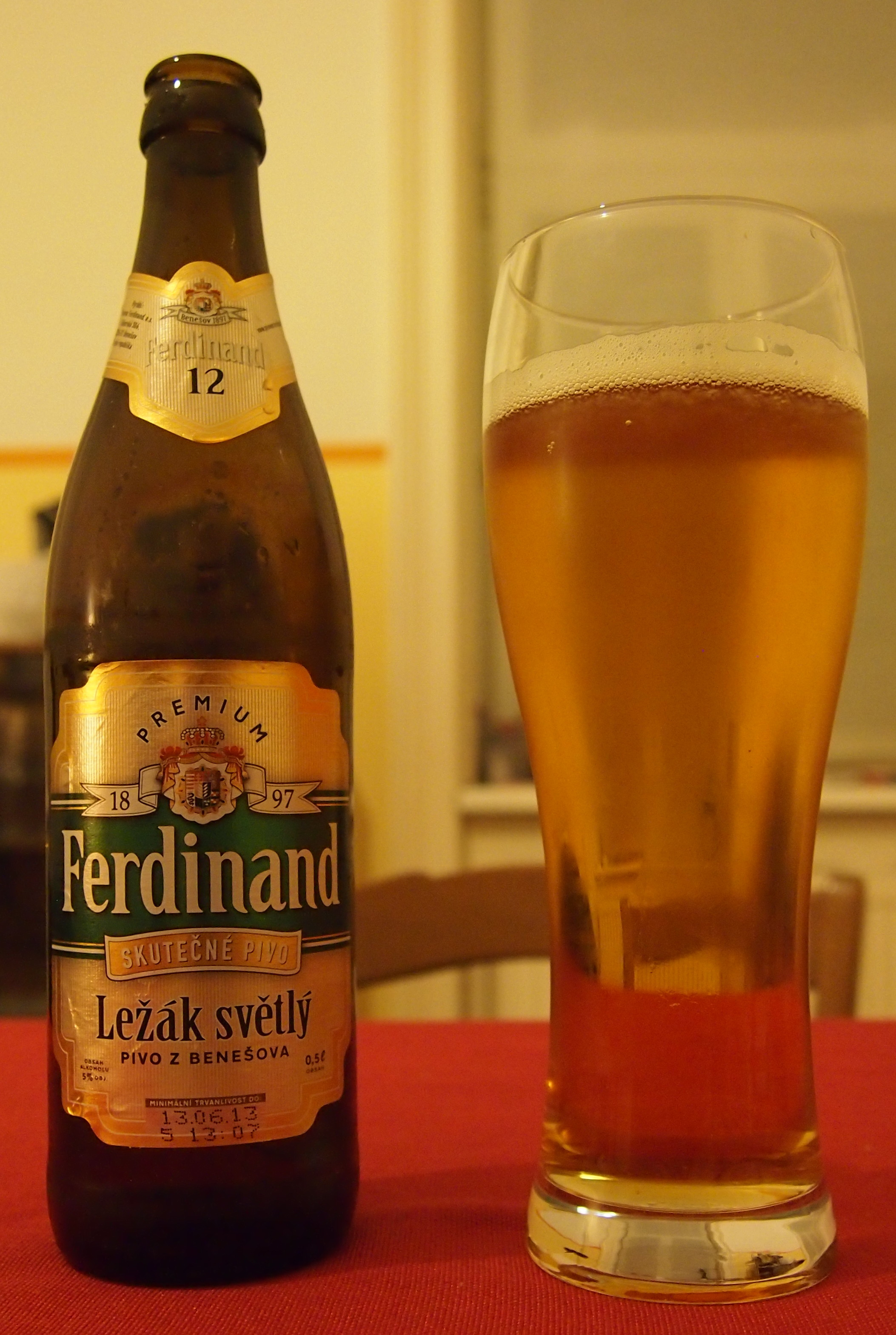 Ferdinand light beer brewed by the Pivovar Ferdinand a.s., Táborská 306, 25601 Benešov, Czech Republic. Its name is a reference to archduke Franz Ferdinand.